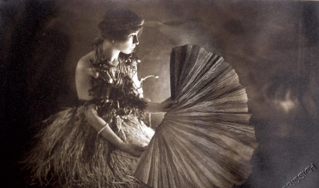 Alma Karlin (1889-1950)